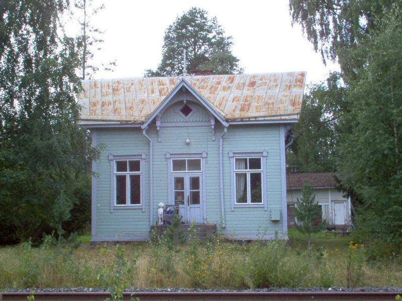 Former Kello railway station in the village of Kello, Haukipudas, Finland. Currently the building is a private residence.